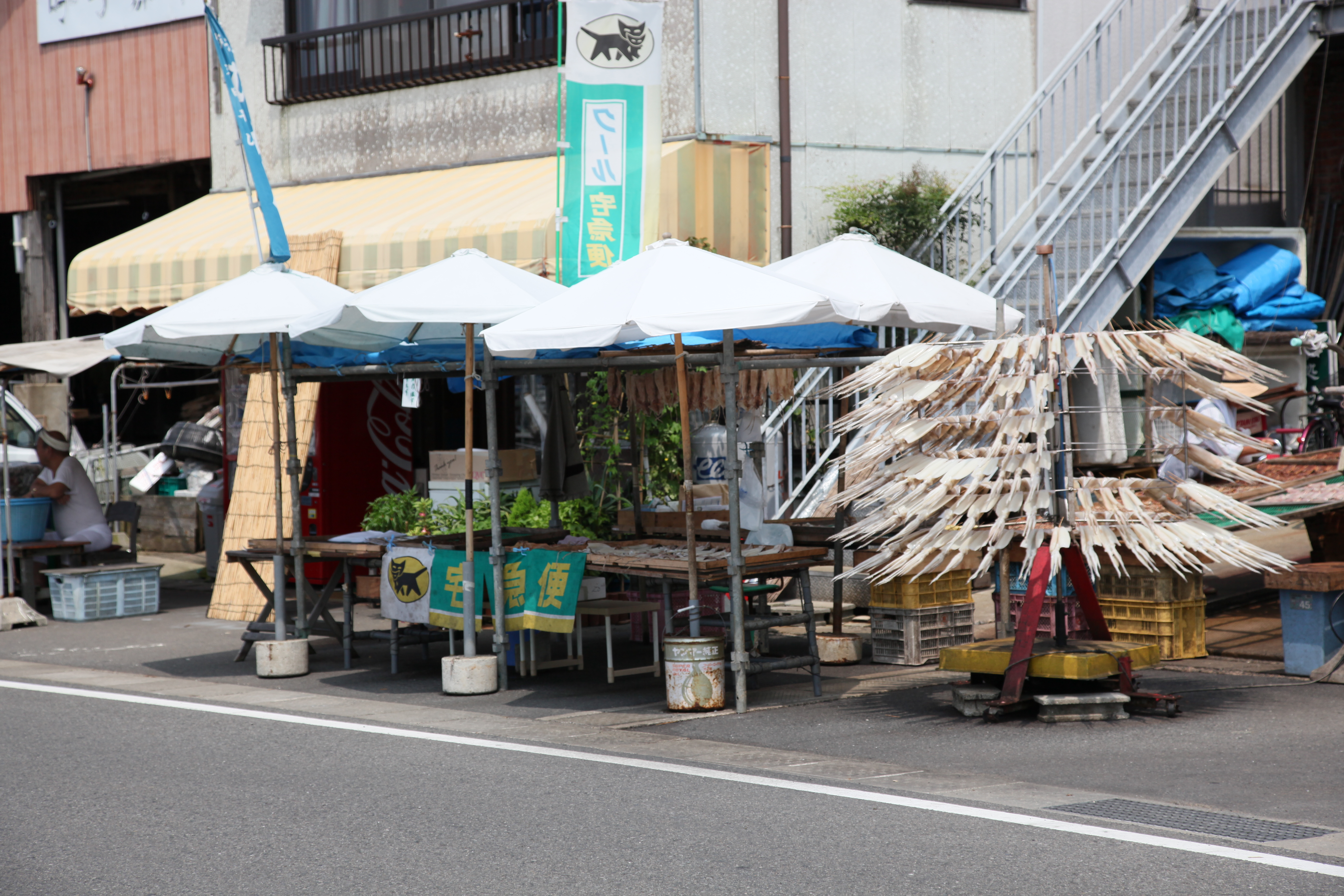 "Yobuko Asa-ichi" which is fisherman's market in Yobuko (Karatsu, Saga, Japan)